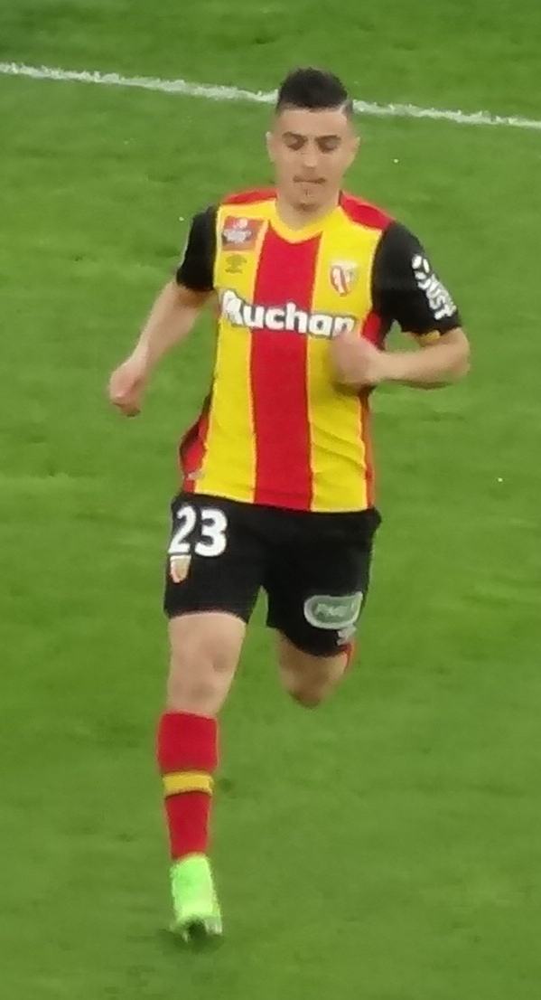 Karim Hafez (RC Lens)